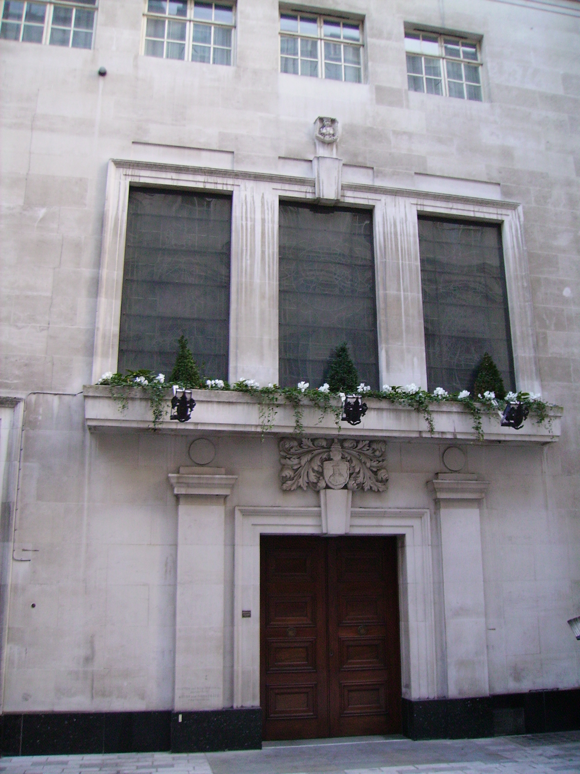 Exterior of Mercers' Hall, Ironmonger Lane, London EC2